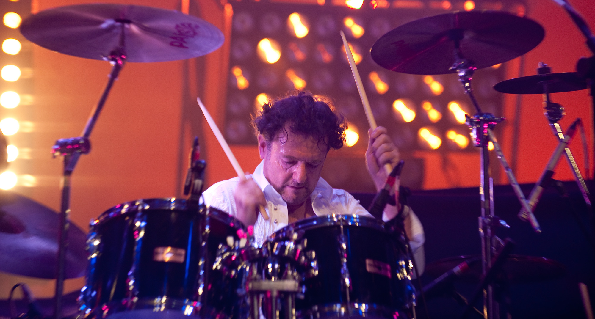 John Doyle performing with Magazine at the BBC Electric Proms at The Roundhouse